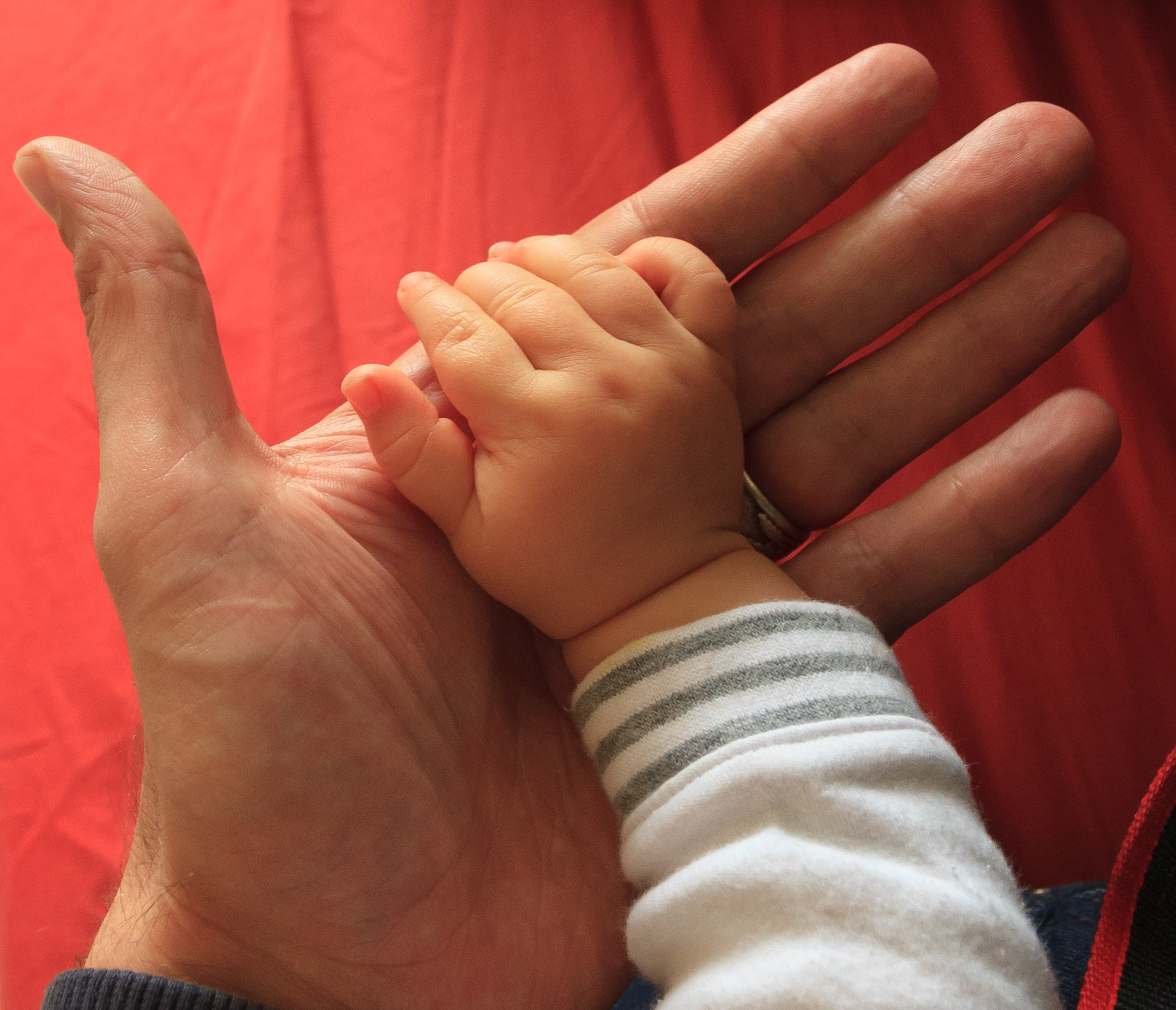 Close up of father (39 years old) holding baby's (nine months old) hand.